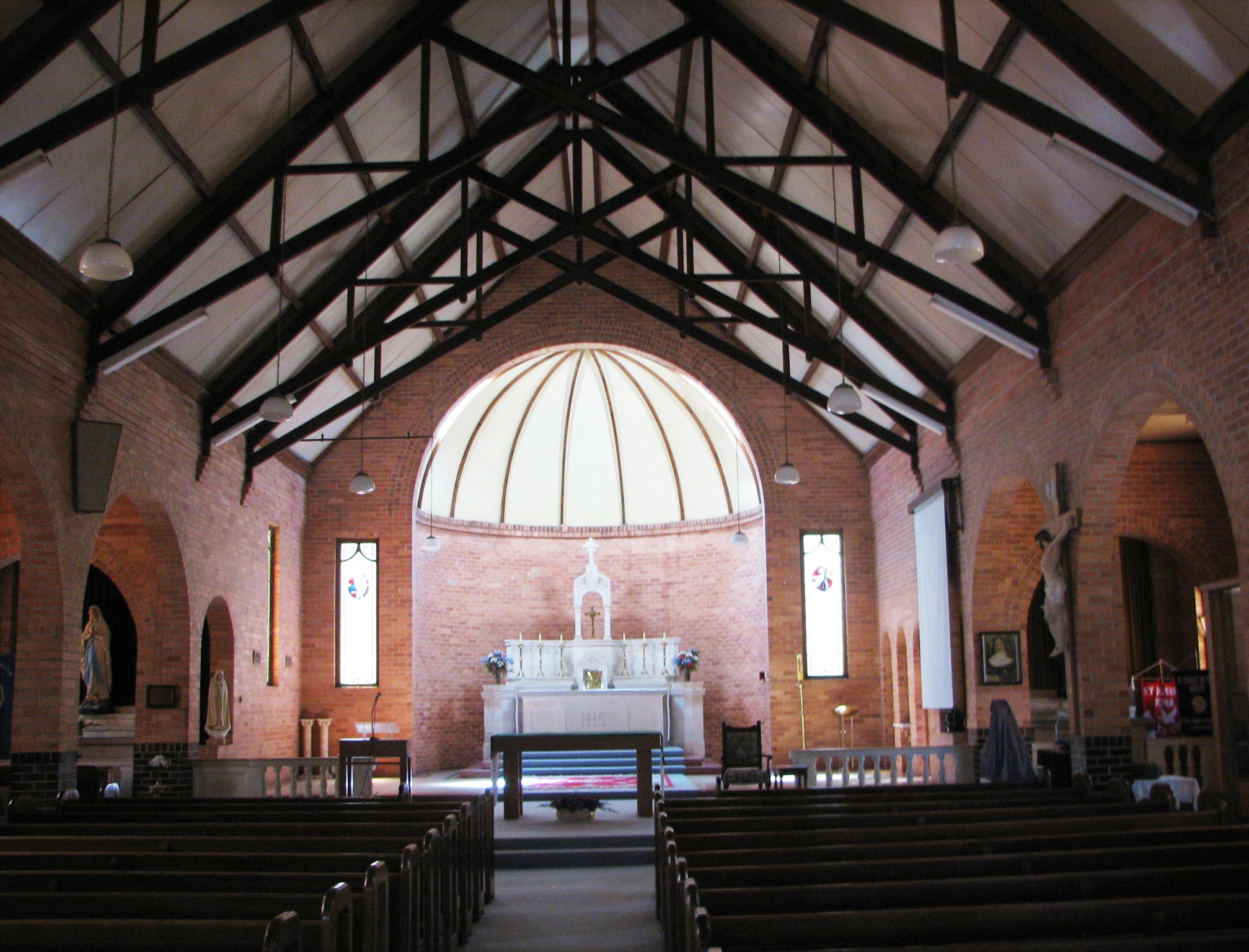 Interior of St Joseph's, Iona